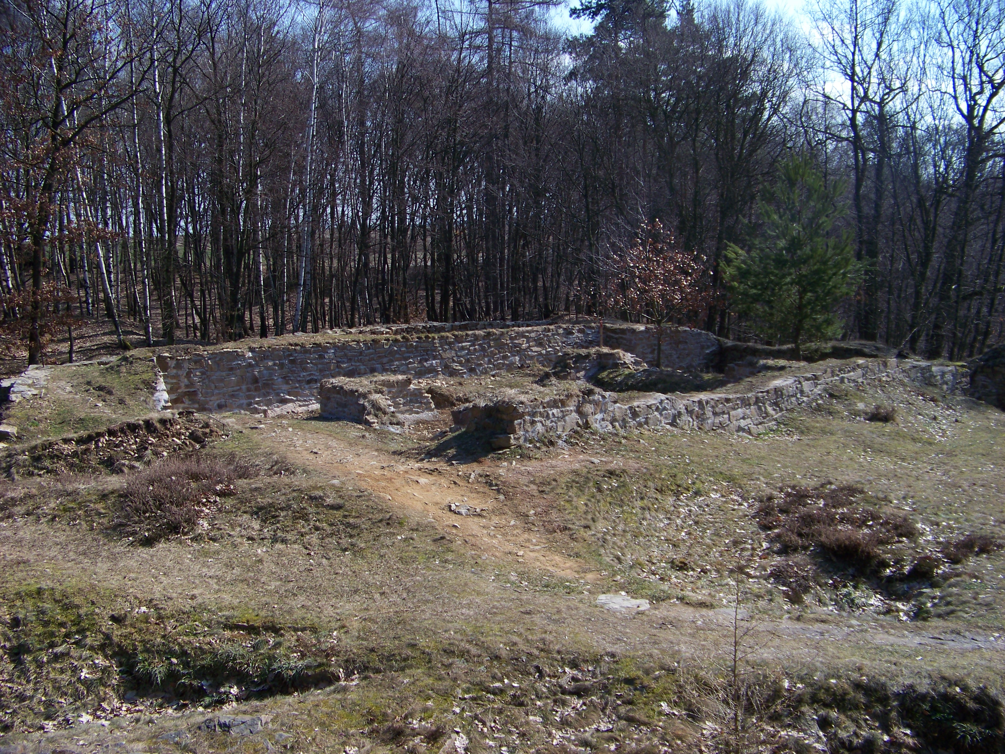 Chlístovice, Kutná Hora District, Central Bohemian Region, the Czech Republic. Sion Castle.